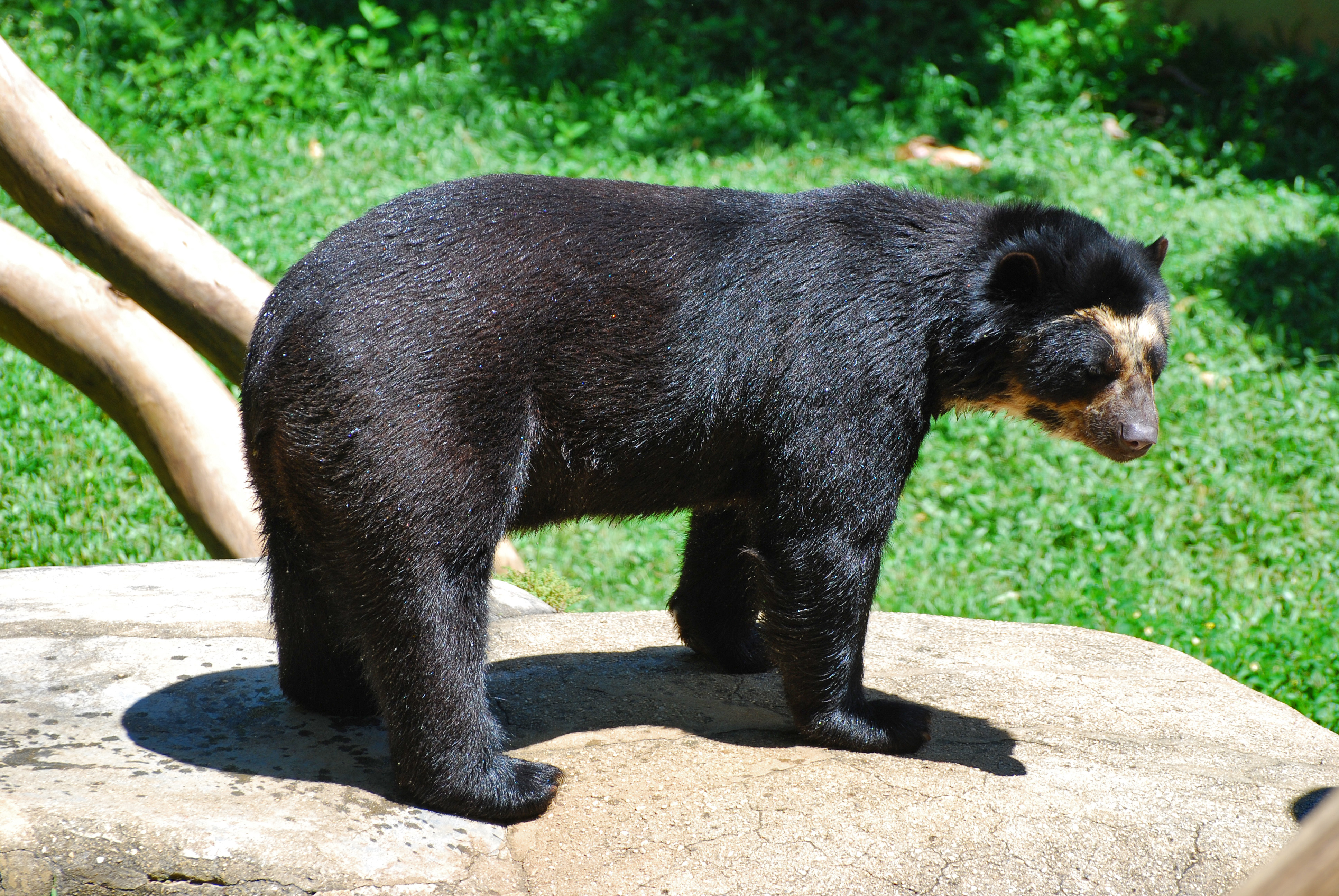 Spectacled Bear